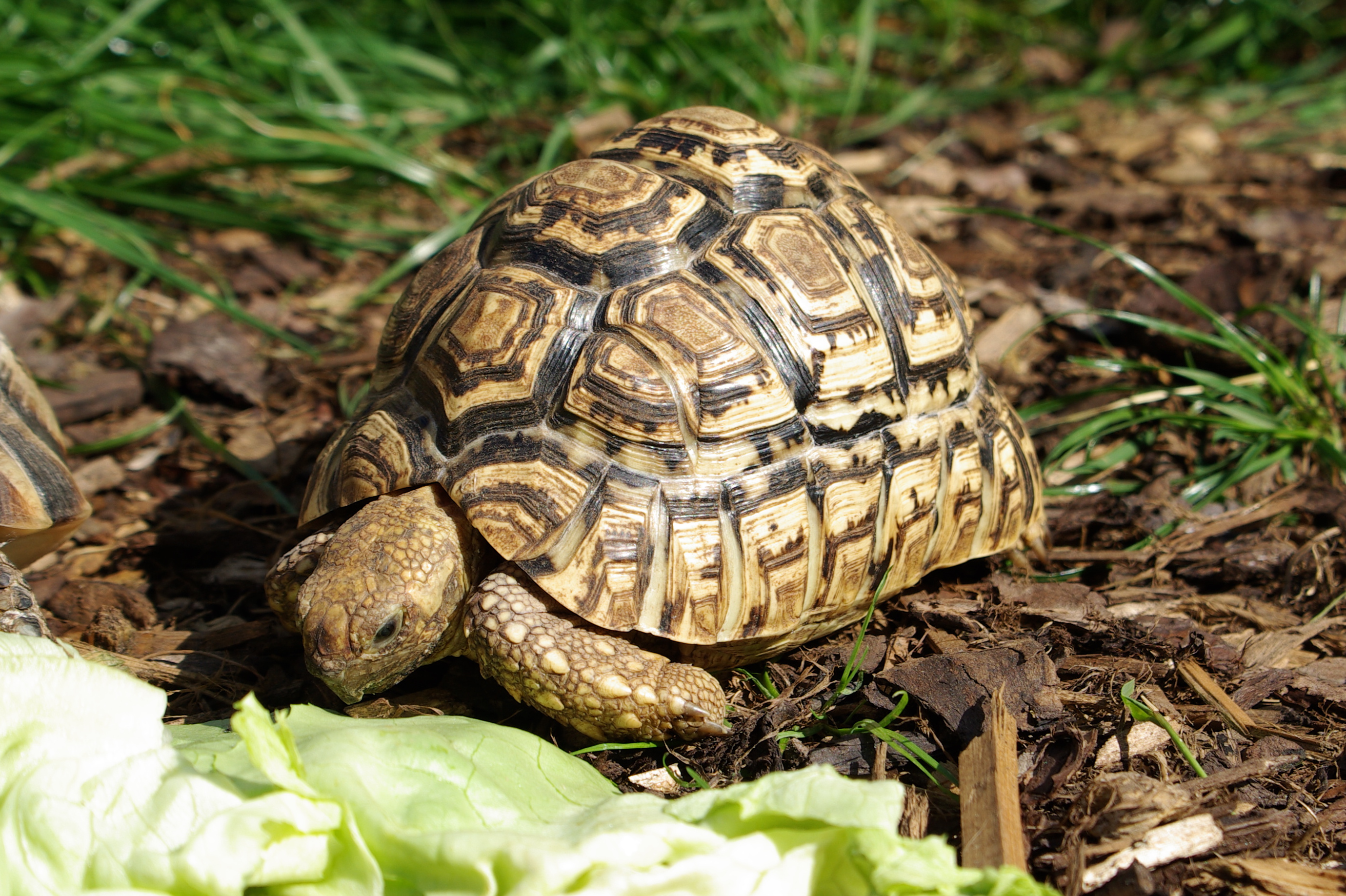 Geochelone pardalis 7 years old